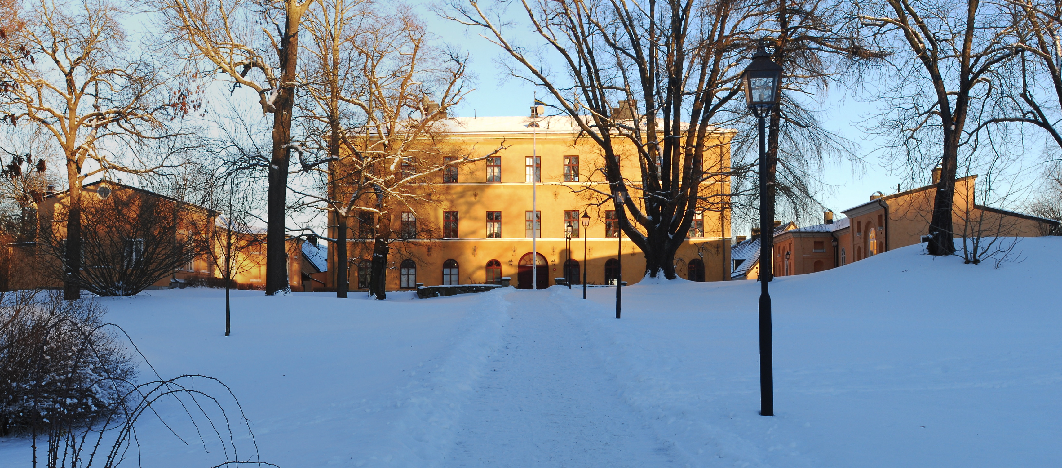 Ulvsunda slott (Ulvsunda castle)